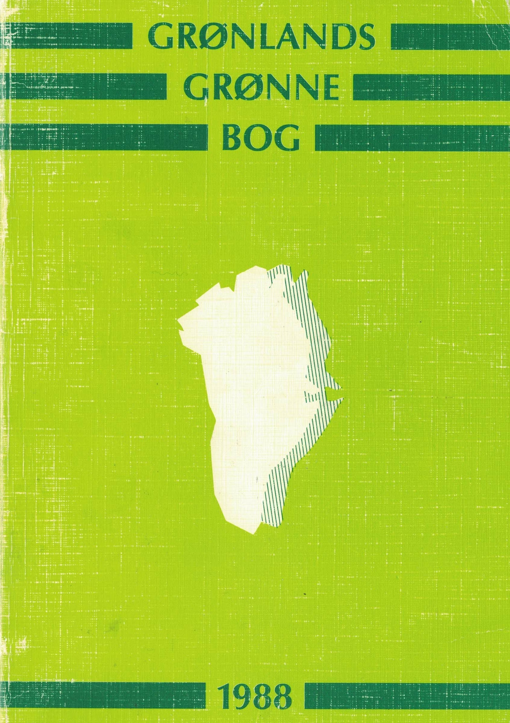 Book cover of Grønlands Grønne Bog 1988